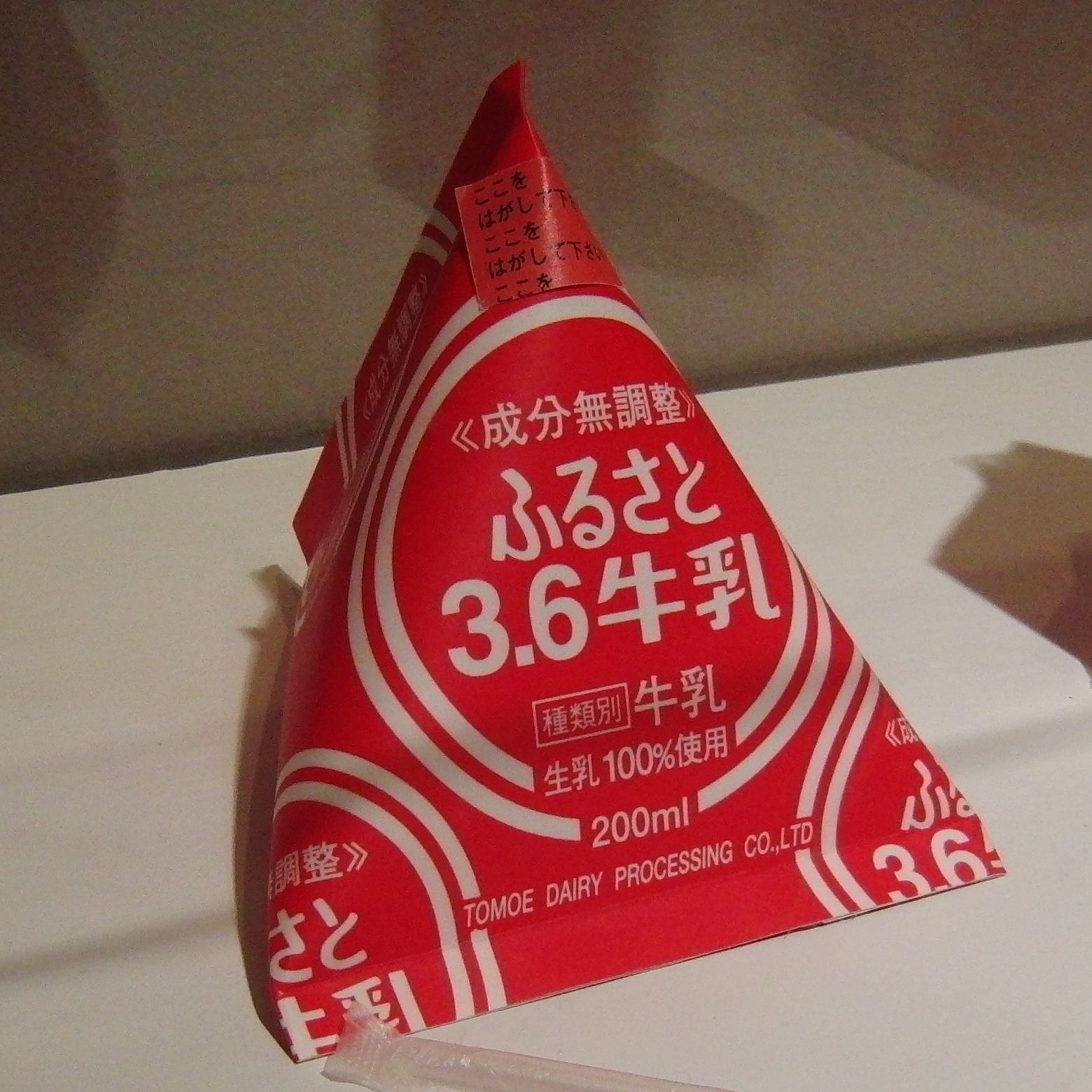 Tetra Pak of Milk "Furusato 3.6 Milk" by Tomoe Dairy Processing (Japanese company). Collection of Milk museum, Tomoe Dairy Processing, Japan.